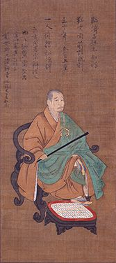 頂相 chinzō; formal portrait of Ikkyū 酬恩庵 Shūon-an in Takigi (Tanabe, Kyoto Prefect.)